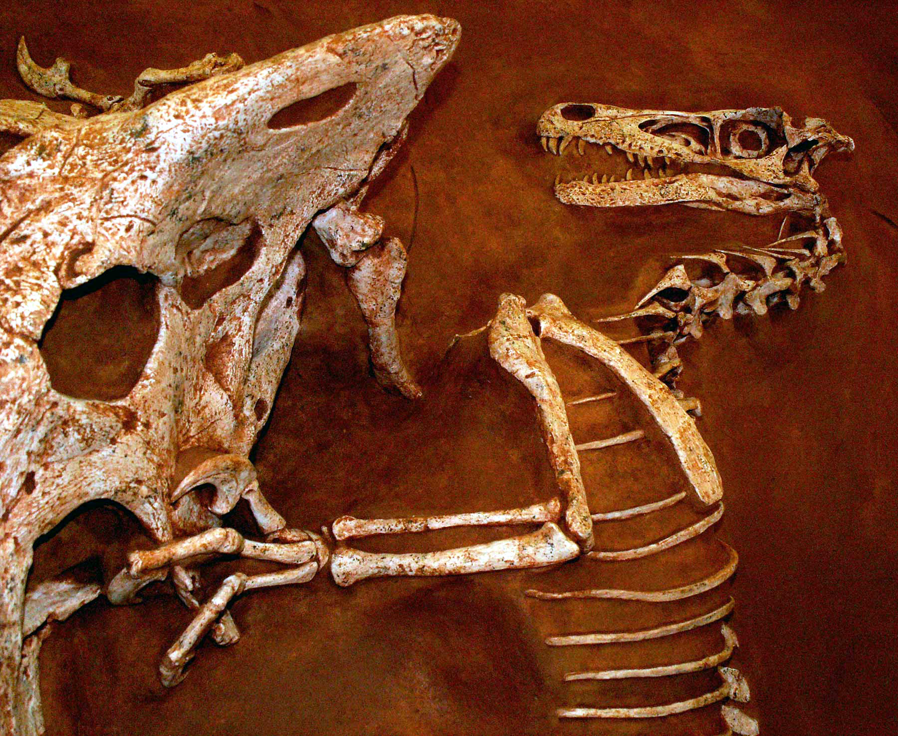 A replica of a real fossil find (fighting dinosaur, Velociraptor and Protoceratops), this one found by me at the Tucson Rock and Gem Show. There is a venue at the Inn Suites Hotel that features the best of fossils and paleontology in the largest retail and trade show of its kind in the world. I've titled it as it is for this week there was announcement and worldwide acclaim for an archaelogical discovery of two Neolithic humans discovered, popularly called "Embrace". (one flickr member copied a photo of it that was published online and it made "Interestingness" and Explore). This image was captured no flash and handheld in the exhibition hall. Human Embrace here